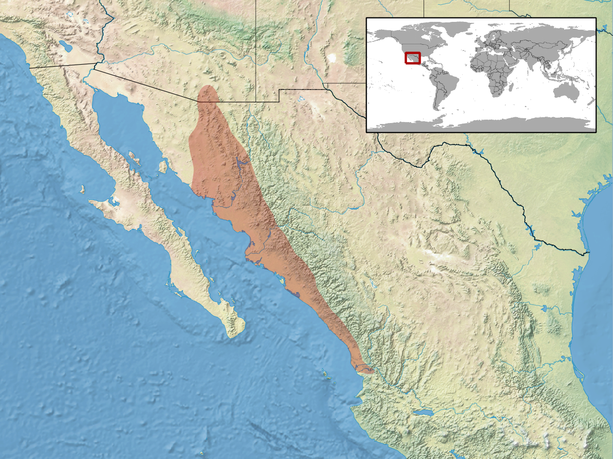 geographic distribution of Gyalopion quadrangulare (Native: Mexico; United States)